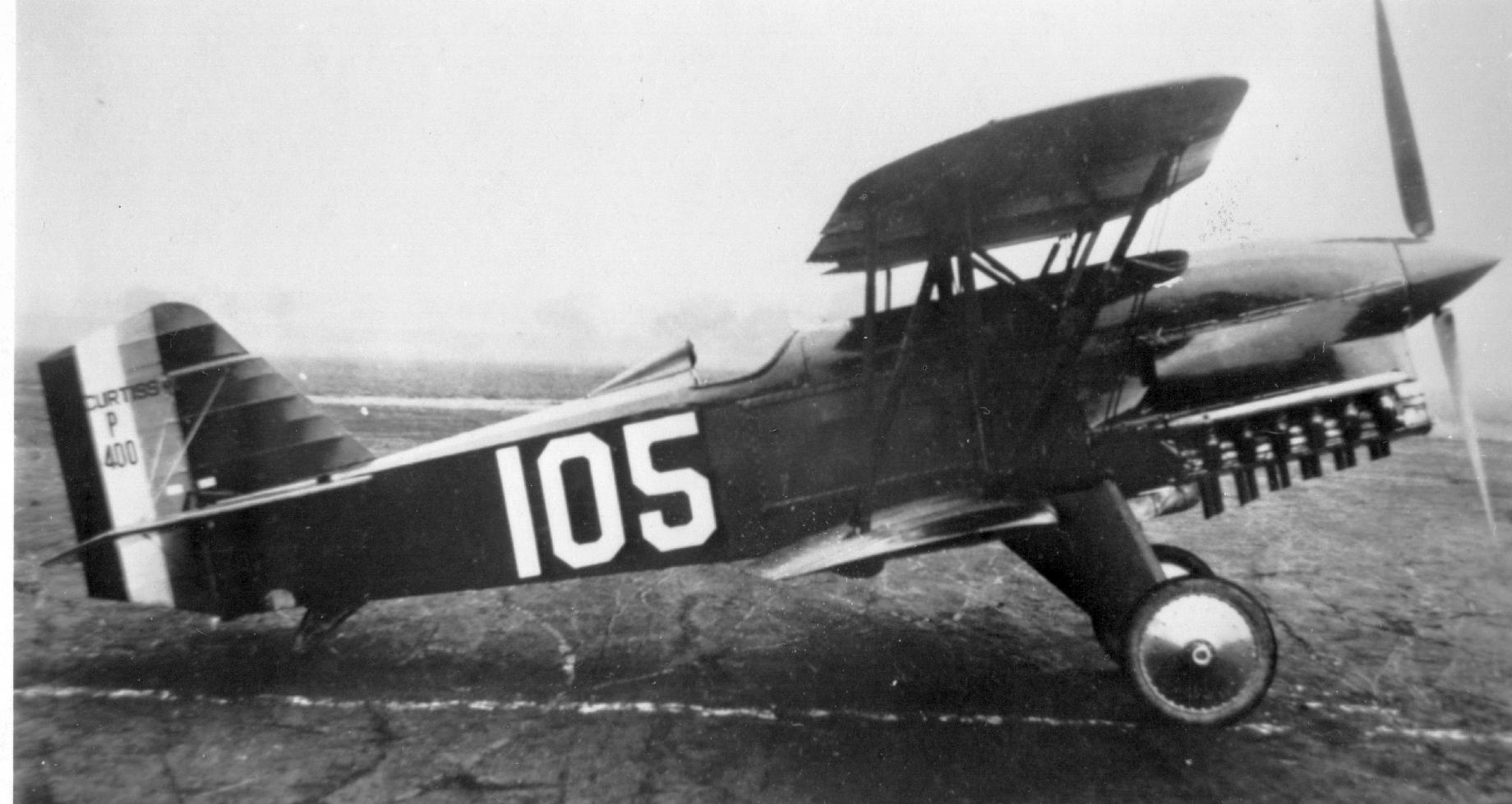 Curtiss XP-17, testbed for the Wright V-1470 air-cooled engine.